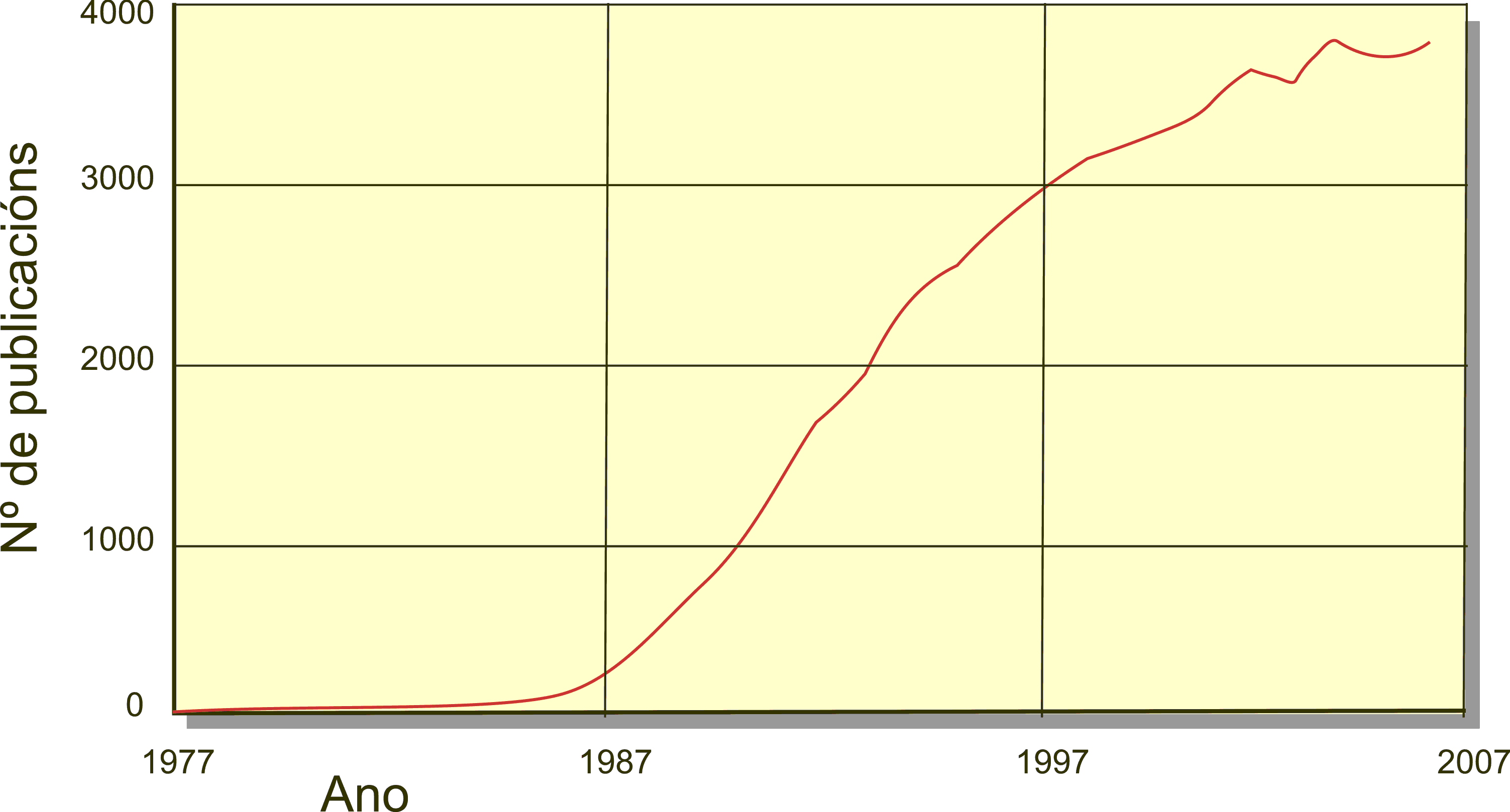 publications about signal transduction in MEDLINE